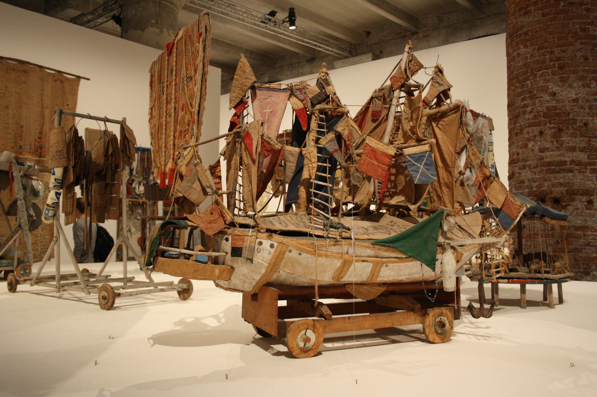 55th Venice Biennale